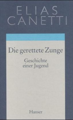 Book cover of Elias Canetti "Die gerettete Zunge" 1977